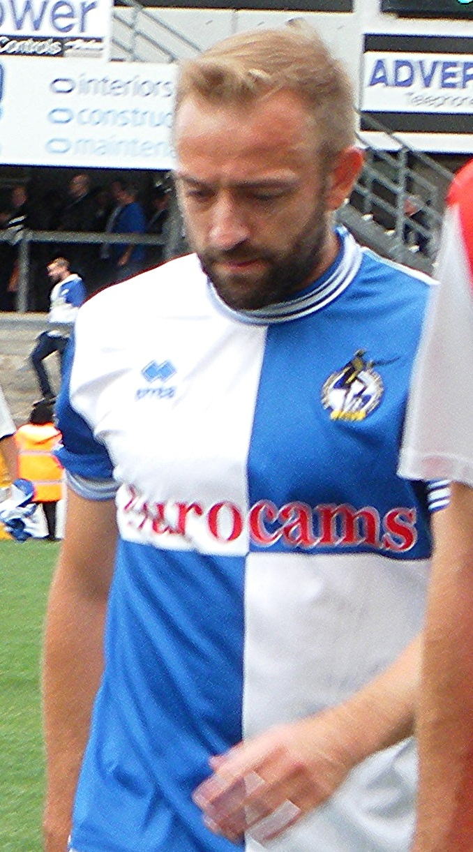 Matthew Gill. Image cropped from original at flickr.